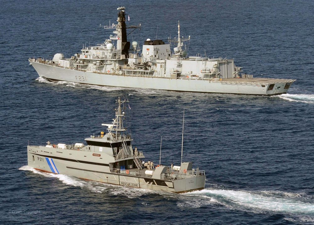 Type 23 frigate HMS Argyll is pictured in company with the Cape Verde Coastguard cutter Guardião, off the West African coast. HMS Argyll was scheduled to undertake a range of tasks across the Atlantic in support of British interests worldwide. Her tasking will see her support the counter narcotics effort in the West Africa region as well as providing reassurance to UK territories and partners worldwide. © Crown Copyright 2013 Photographer: LA(Phot) Pepe Hogan Image 45155103.jpg from This image is available for high resolution download at subject to the terms and conditions of the Open Government License at Search for image number 45155103.jpg For latest news visit Follow us